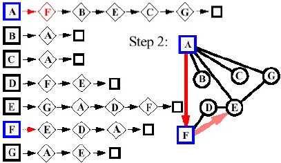 Dry run Depth-first search Algorithm in Graph, step 2